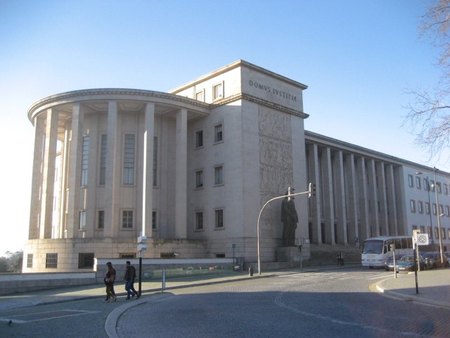 Palace of Justice - Porto